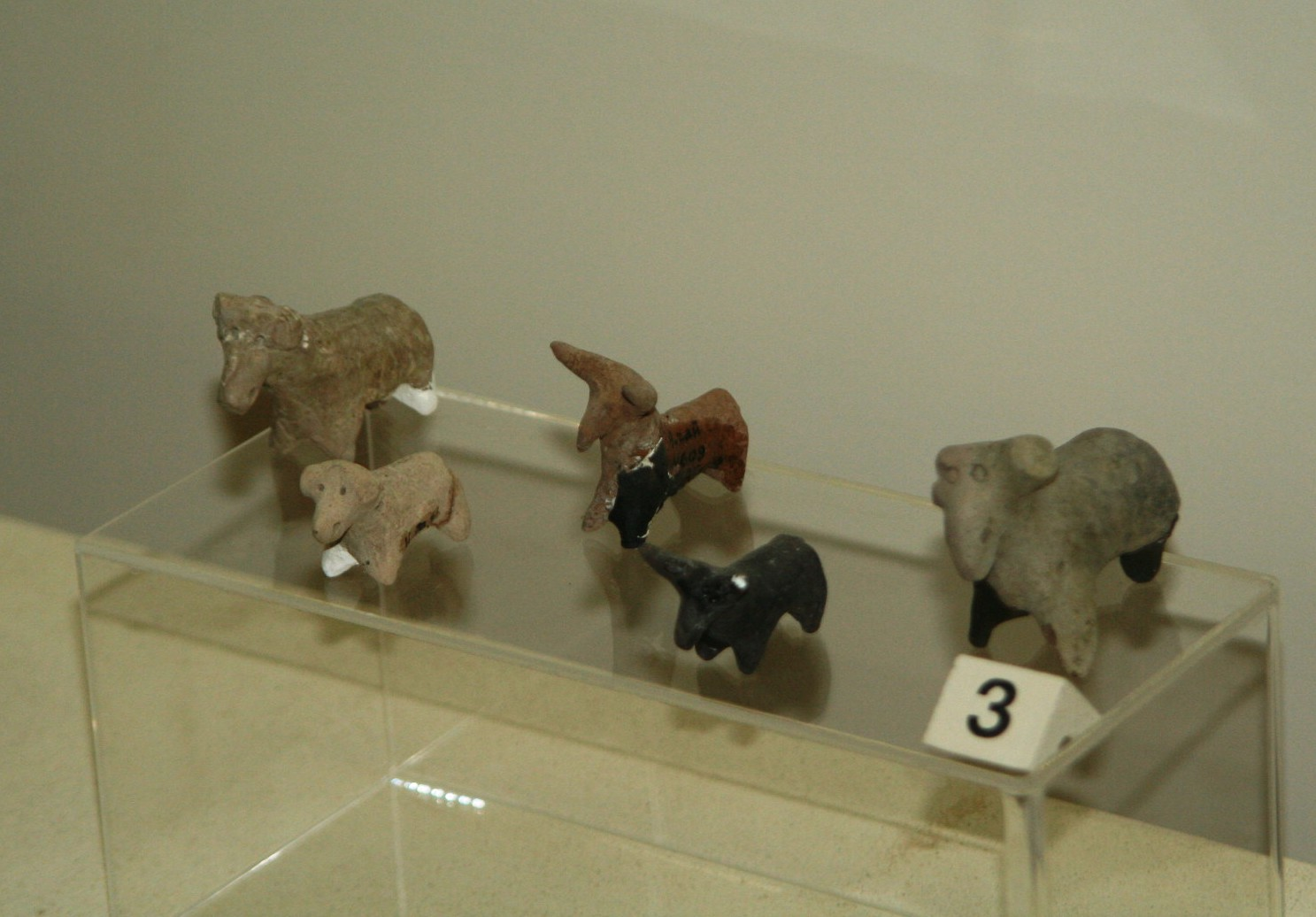 Clay figures of animals from Kultepe I and Babadervish